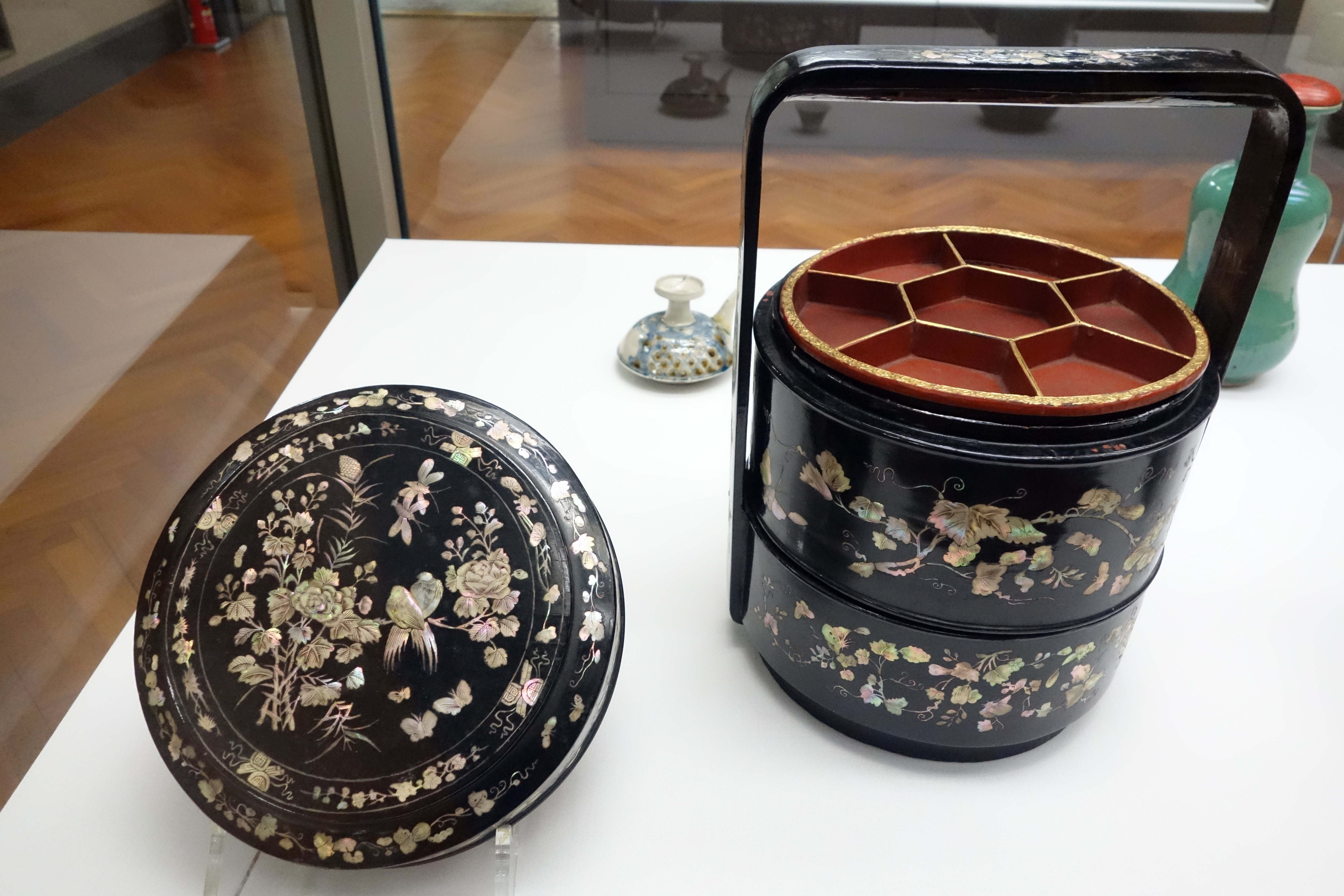 Exhibit in the Tokyo National Museum, Tokyo, Japan. This artwork is old enough so that it is in the public domain.